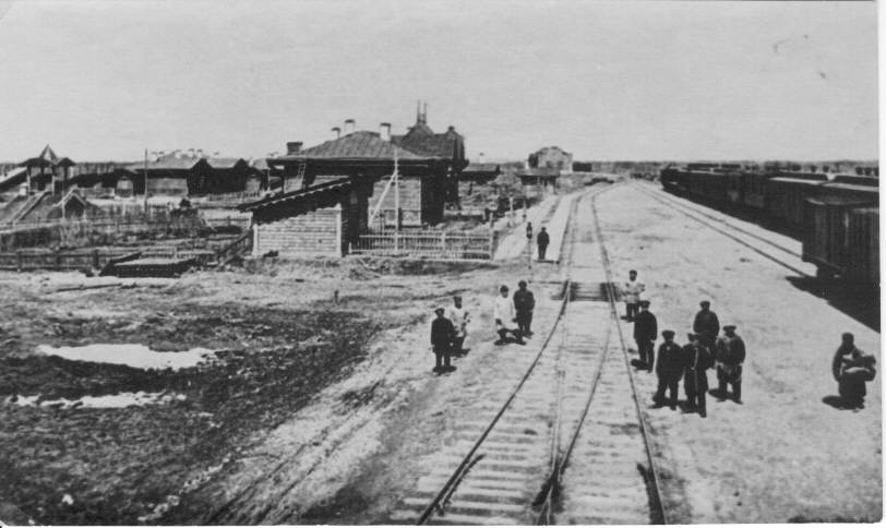 Tomsk train station (now Tomsk-II), Tomsk oblast, Russia. Photo made in 1899